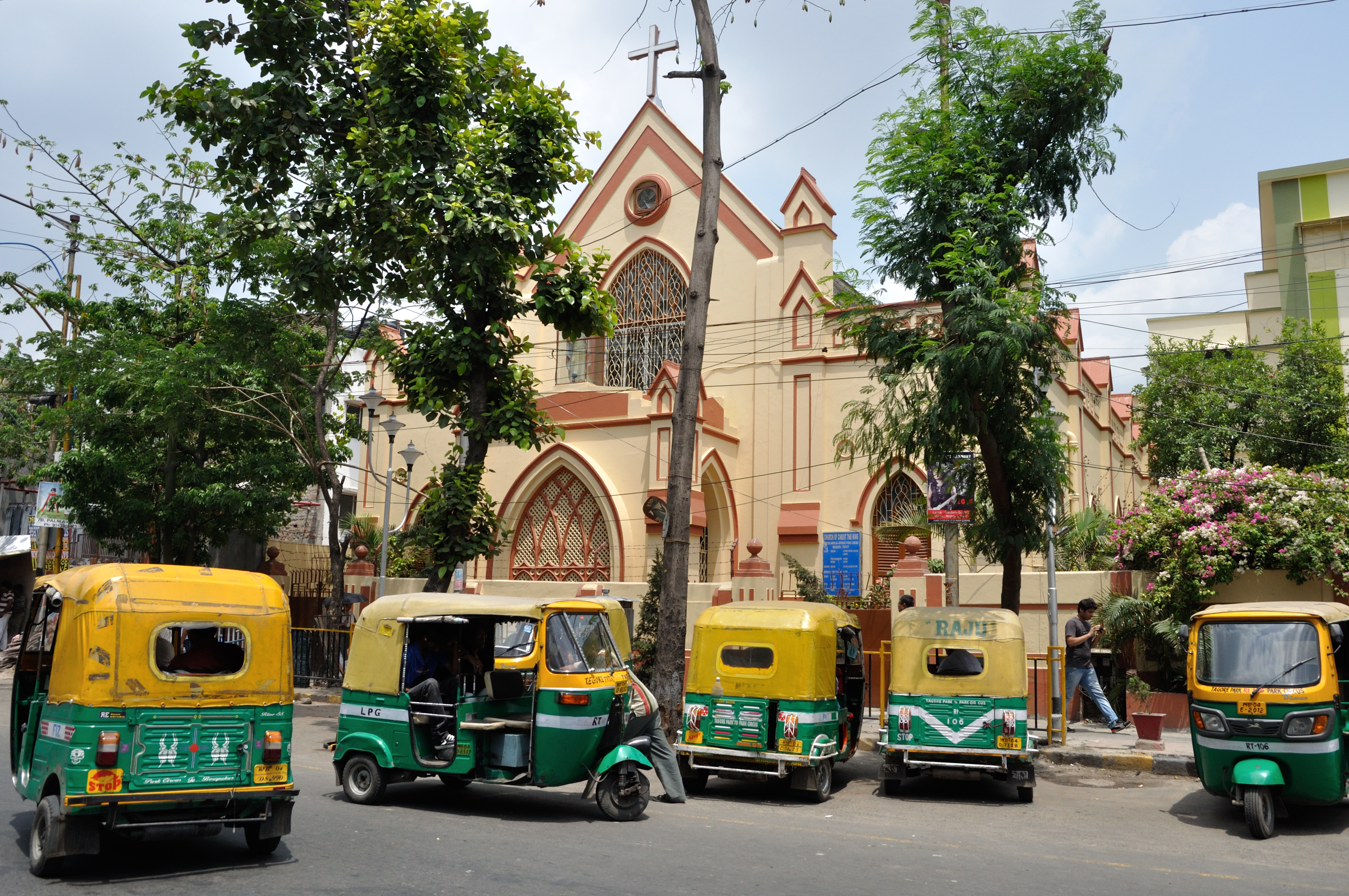 Photographed in Kolkata.